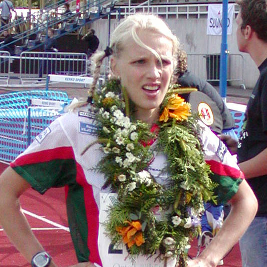 Finnish orienteerer Minna Kauppi in eCross cross-country competition 2005. Photo by Jonny Smeds.